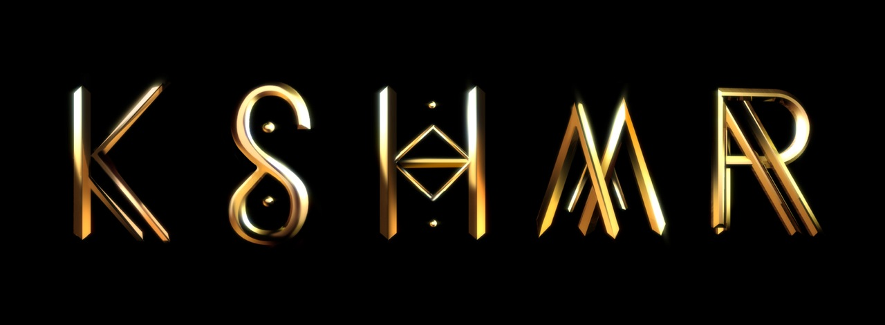 KSHMR Logo